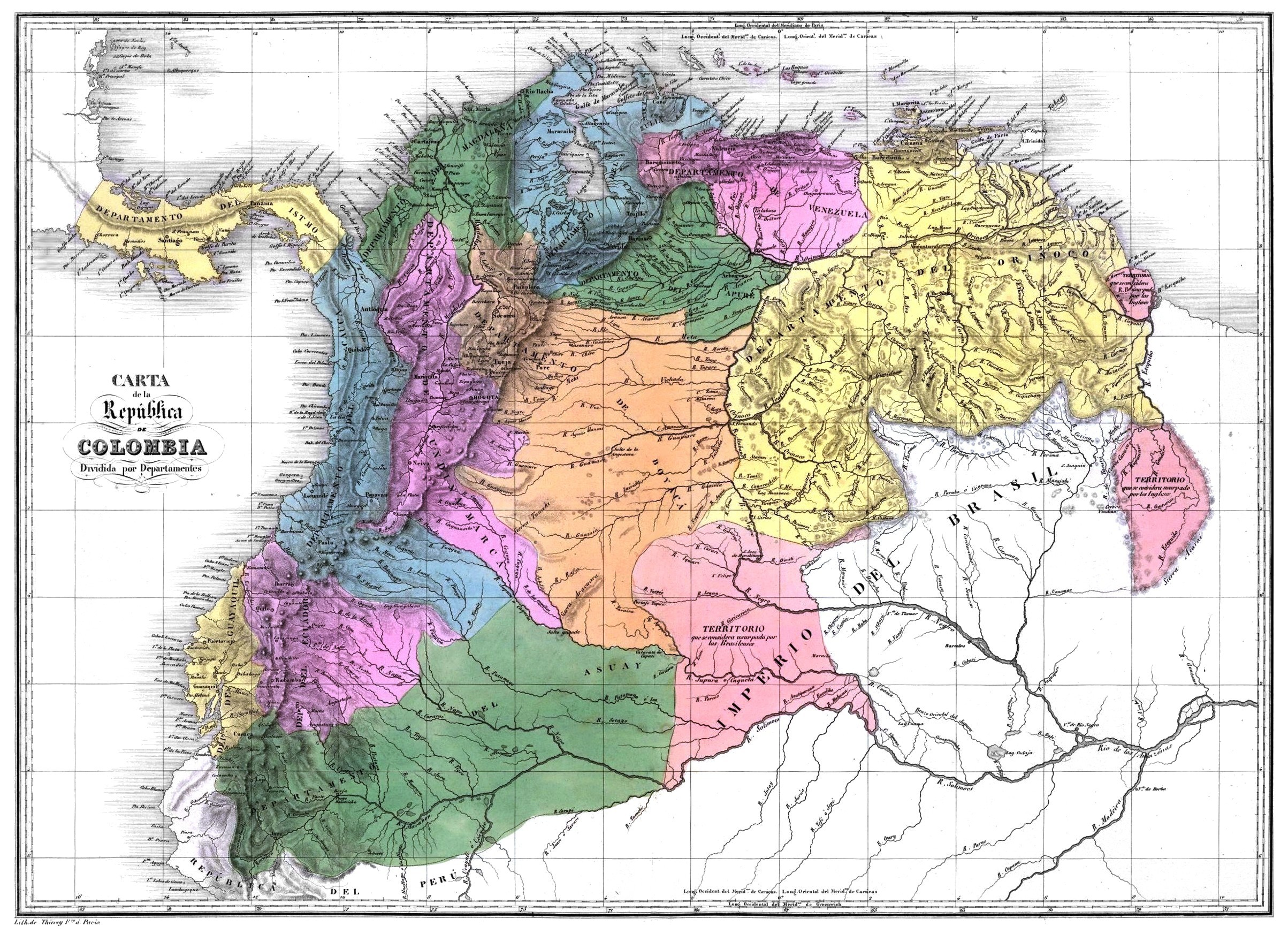 Map of the Greater Colombia